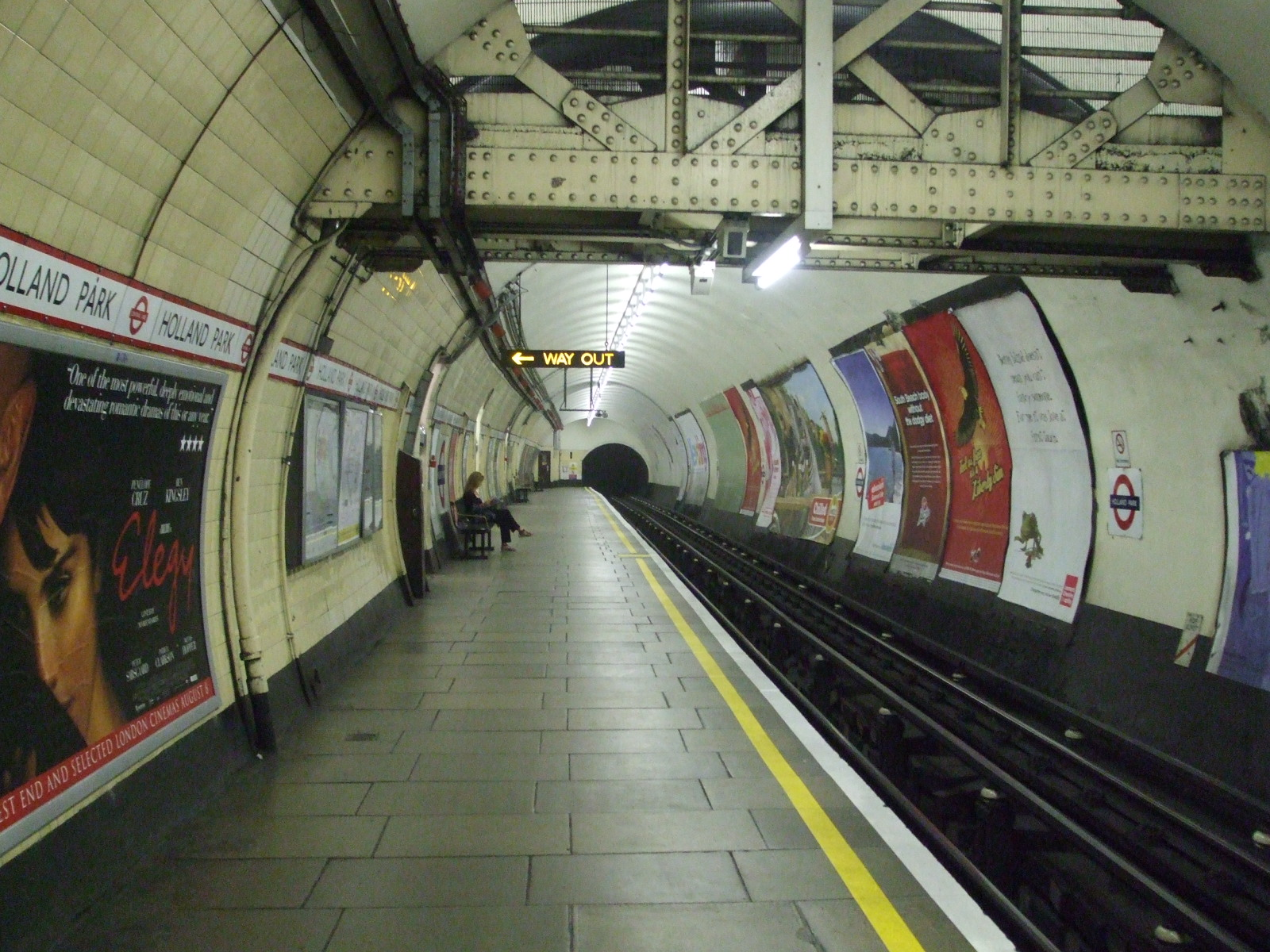 Holland Park tube station eastbound platform looking west